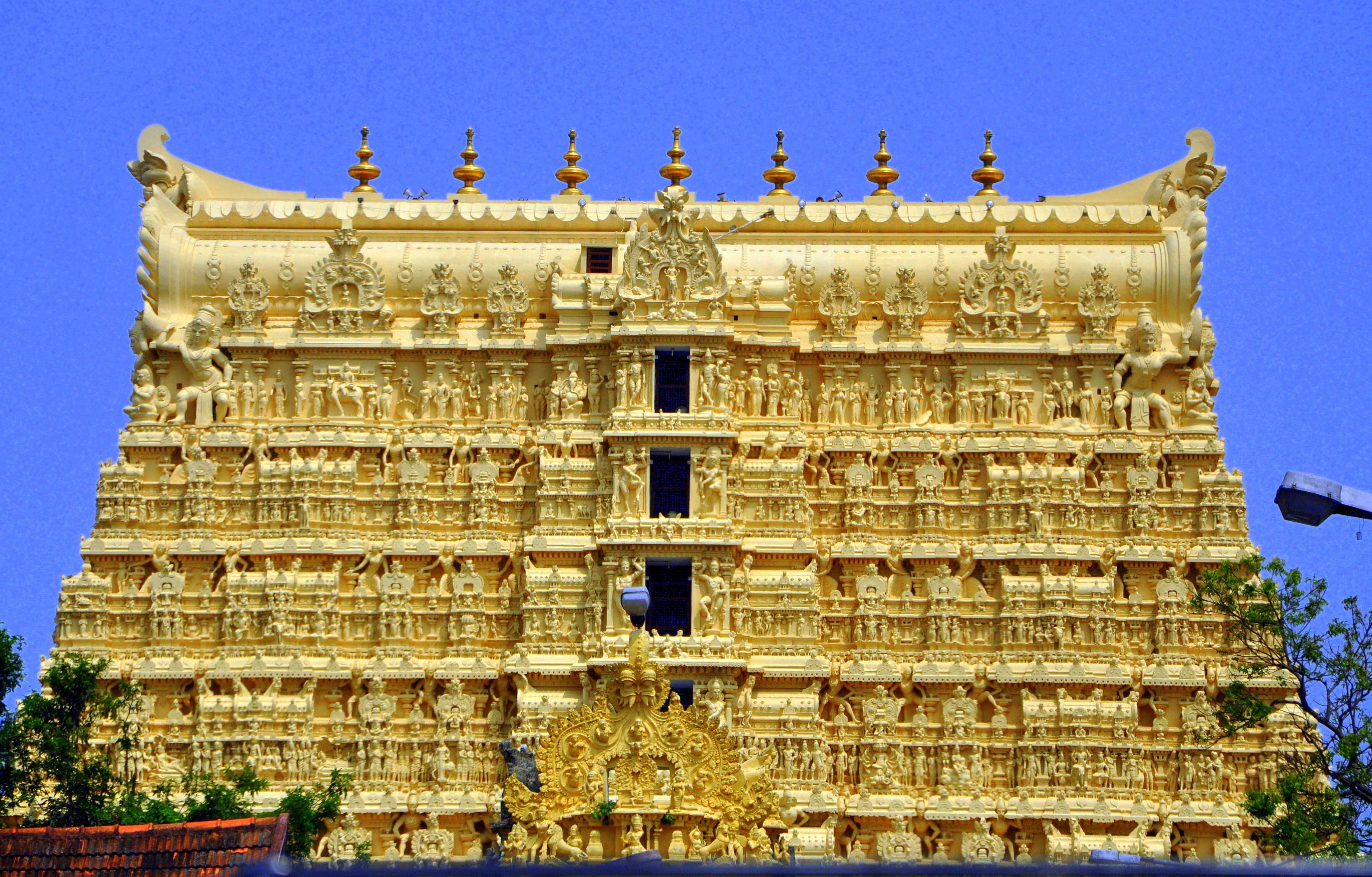 Sree Padmanabhaswamy templeis a Hindu temple dedicated to Lord Vishnu located in Thiruvananthapuram, India. The shrine is currently run by a trust headed by the royal family of Travancore. The Principal Deity, Padmanabhaswamy, is enshrined in the "Anantha-sayanam" posture (in the eternal sleep of Yoga-nidra on the serpent Anantha).